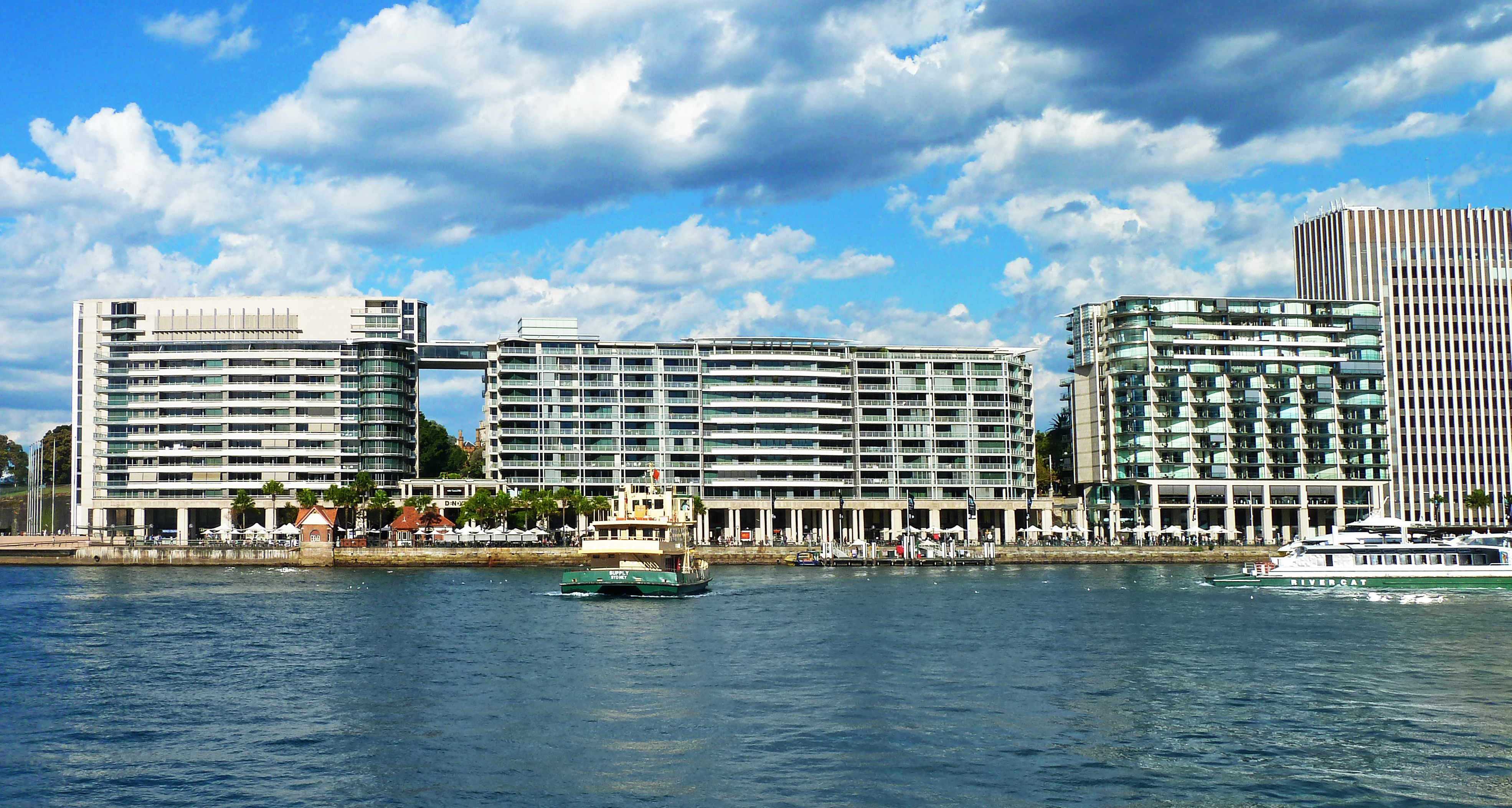 Bennelong Apartments, 1–7 Macquarie Street, Sydney, New South Wales, Australia.